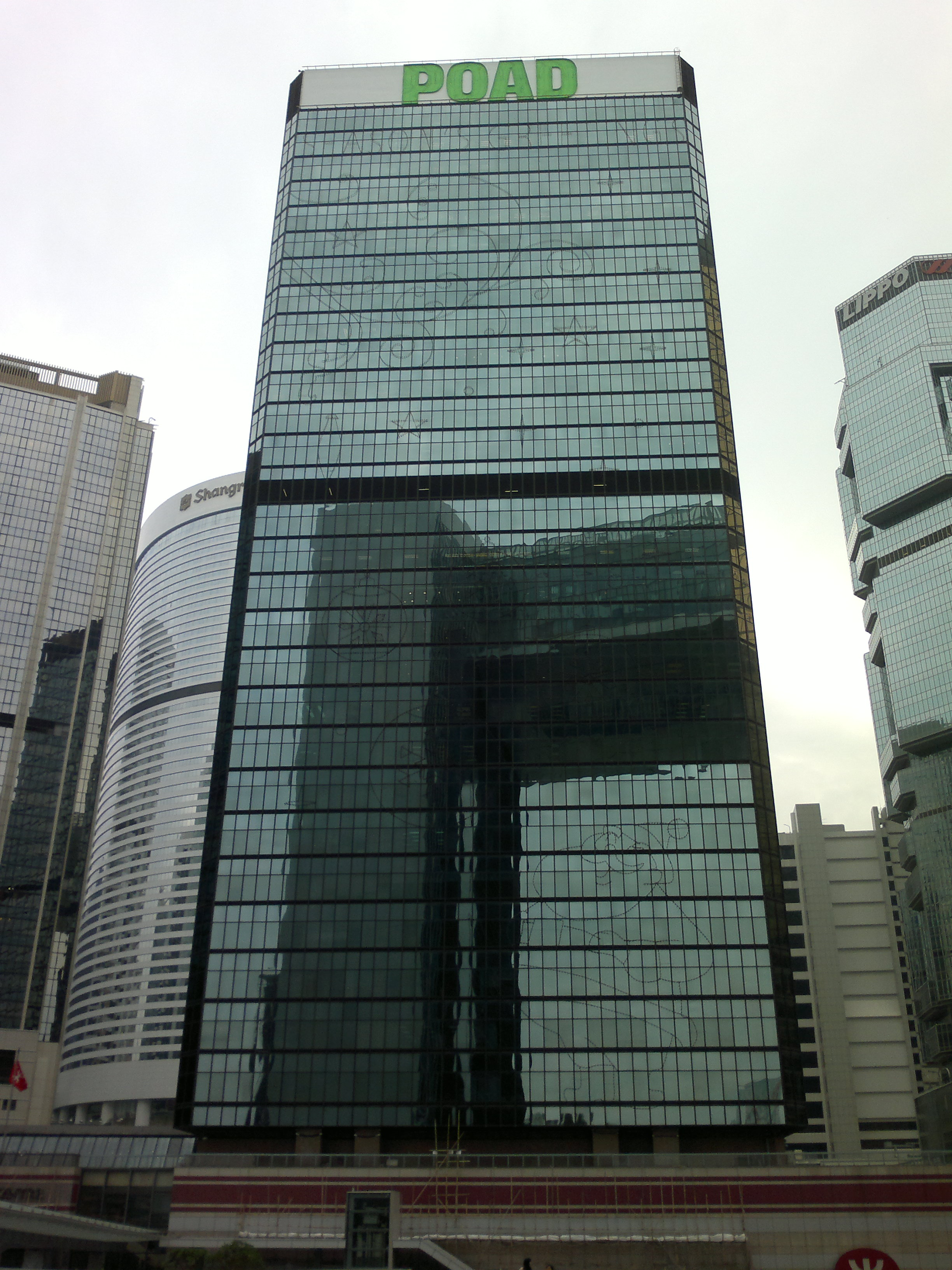 Admiralty Centre Tower 1